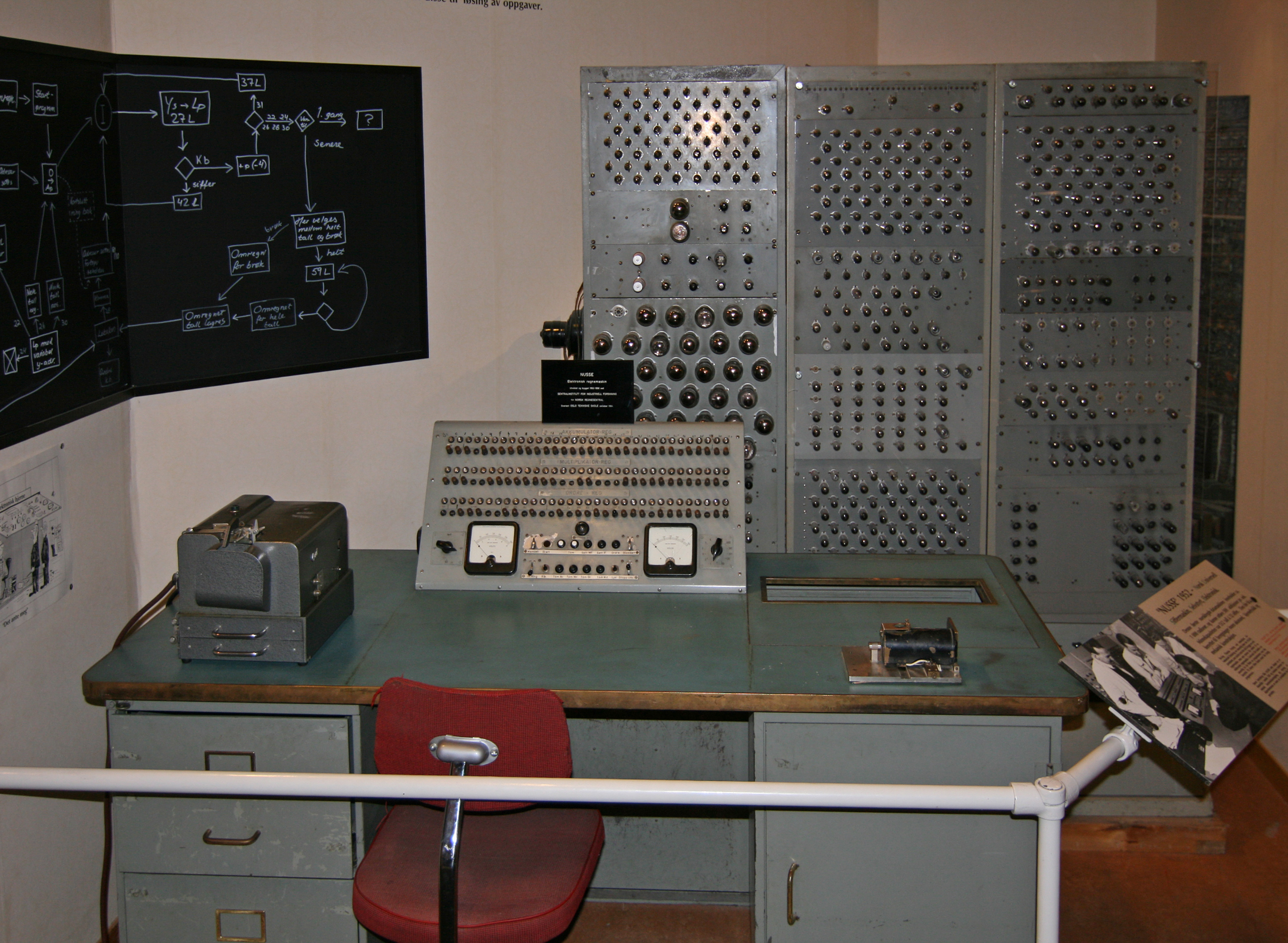 NUSSE - earliest Norwegian-built computer, 1952. (Norwegian Technology Museum, Oslo.)